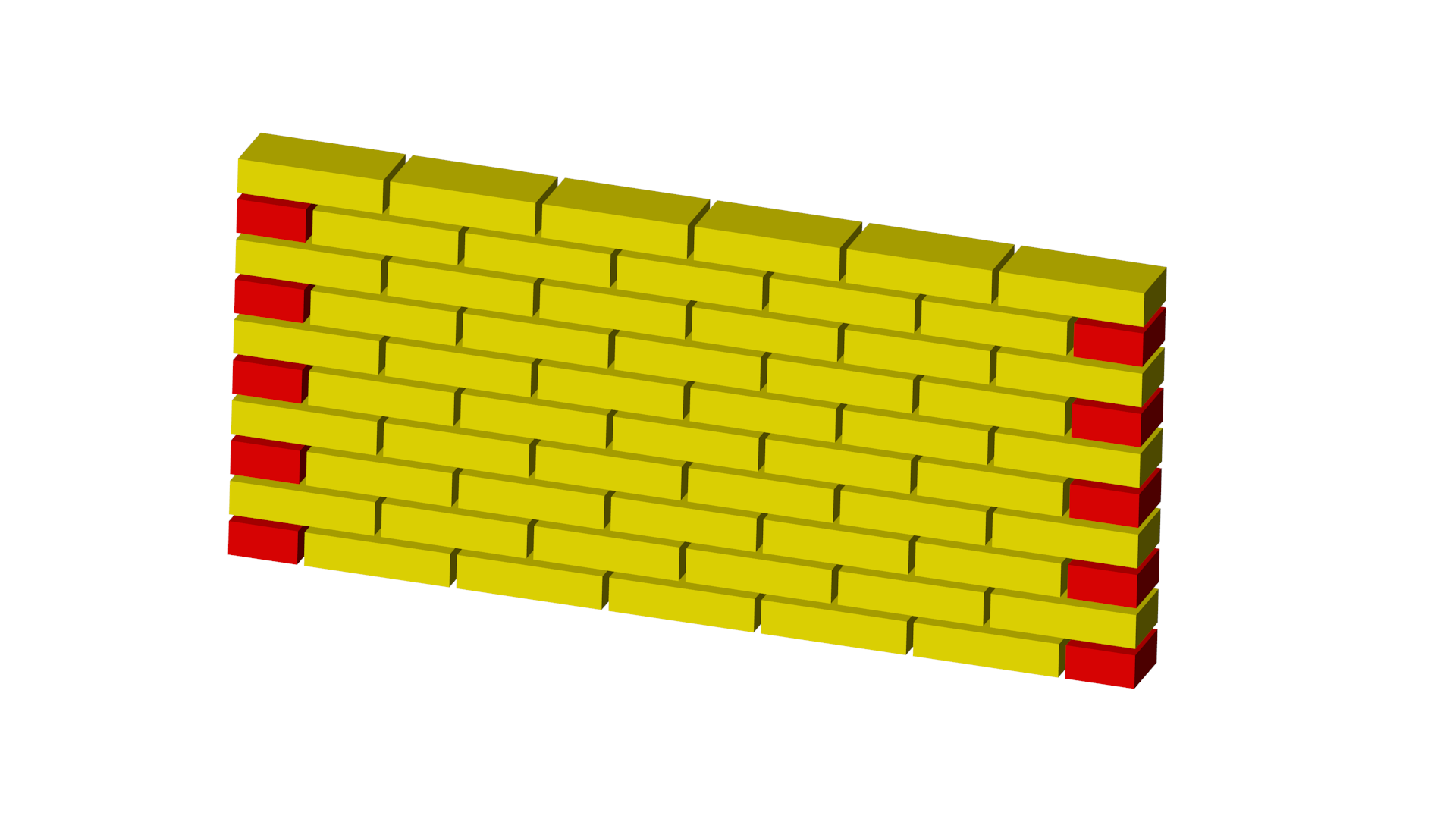 stretcher bond